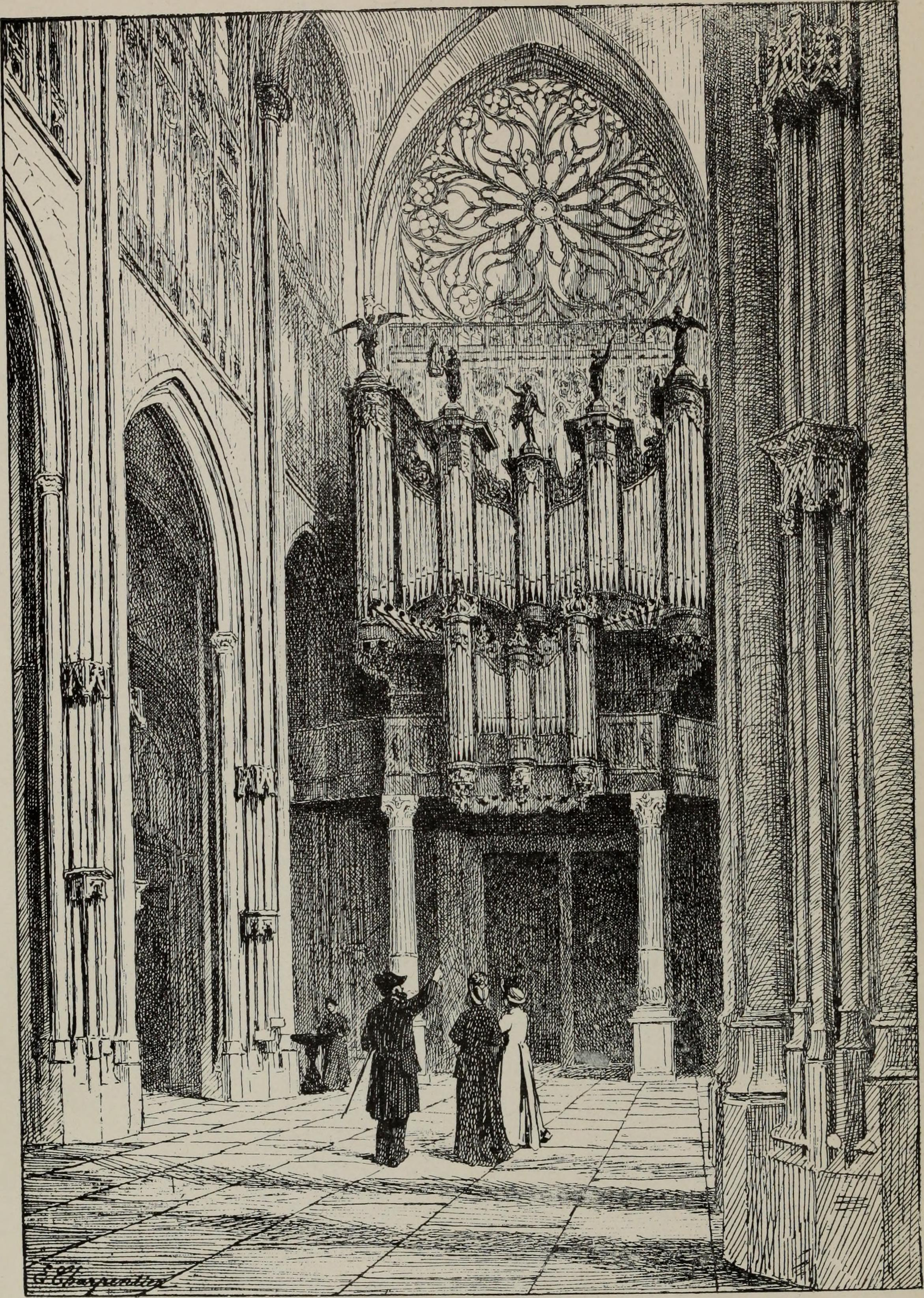 Title: Organ-stops and their artistic registration : names, forms, construction, tonalities, and offices in scientific combination Year: 1921 (1920s) Authors: Audsley, George Ashdown, 1838-1925 Subjects: Organ (Musical instrument) Publisher: New York : The H.W. Gray Co. sole agents for Novello & Co., Ltd. Text Appearing Before Image: ' Text Appearing After Image: CHURCH OF SAINT-OUEN, ROUEN POTiff pi? ORGAN-STOPS AND THEIR ARTISTIC REGISTRATION NAMES, FORMS, CONSTRUCTION,TONALITIES, AND OFFICES INSCIENTIFIC COMBINATION j* j» BY GEORGE ASHDOWN AUDSLEY, LL.D. ECCLESIASTICAL AND ORGAN ARCHITECT AUTHOR OF THE ART OF ORGAN-BUILDING, THE ORGAN OF THE TWENTIETH CENTURY, NUMEROUS ARTICLES ON ORGAN MATTERS AND ACOUSTICS, AND AUTHOR AND JOINT AUTHOR OF TWENTY-THREE WORKS ON ARCHITECTURE, ART, AND INDUSTRY ILLUSTRATED NEW YORK THE H. W. GRAY CO.SOLE AGENTS FOR NOVELLO & CO., LTD. Copyright, 1921, by The H. W. Gray Co. &1GHAM YOU; PROVO, UTAH FOREWORD An attempt has been made in the present work to furnish theorganist, and especially the organ student, with a work of ready ref-erence respecting the numerous Stops which have been and noware introduced in the Organ: giving, so far as is practicable in anecessarily brief and condensed form, their various names in dif-ferent languages, peculiarities of formation, tonal characteristics,and value and oorganstopstheira00auds